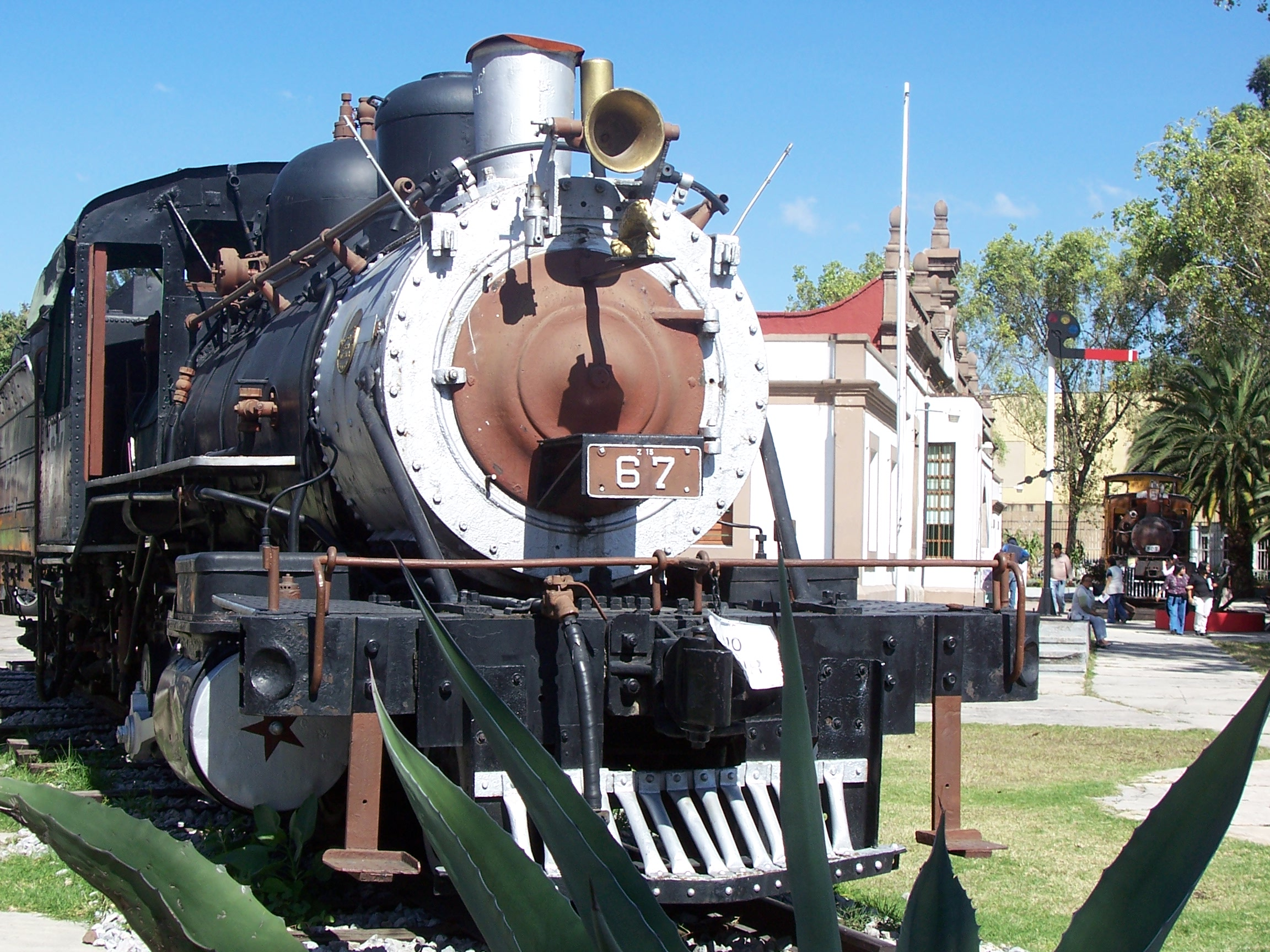 Steam locomotive on the Railwaymen's Museum in Mexico City.